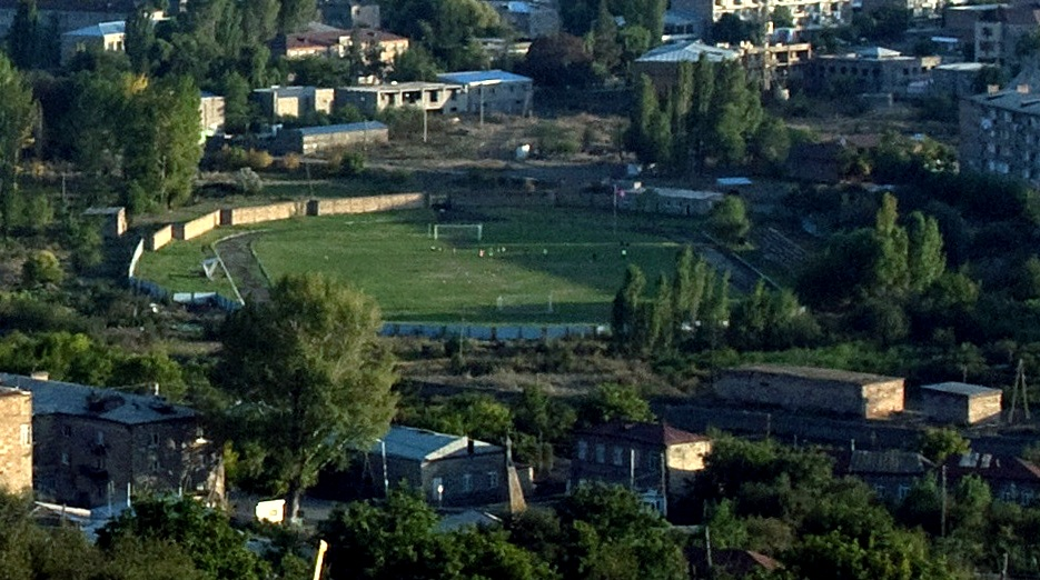 Sisian City Stadium, Sisian, Armenia.